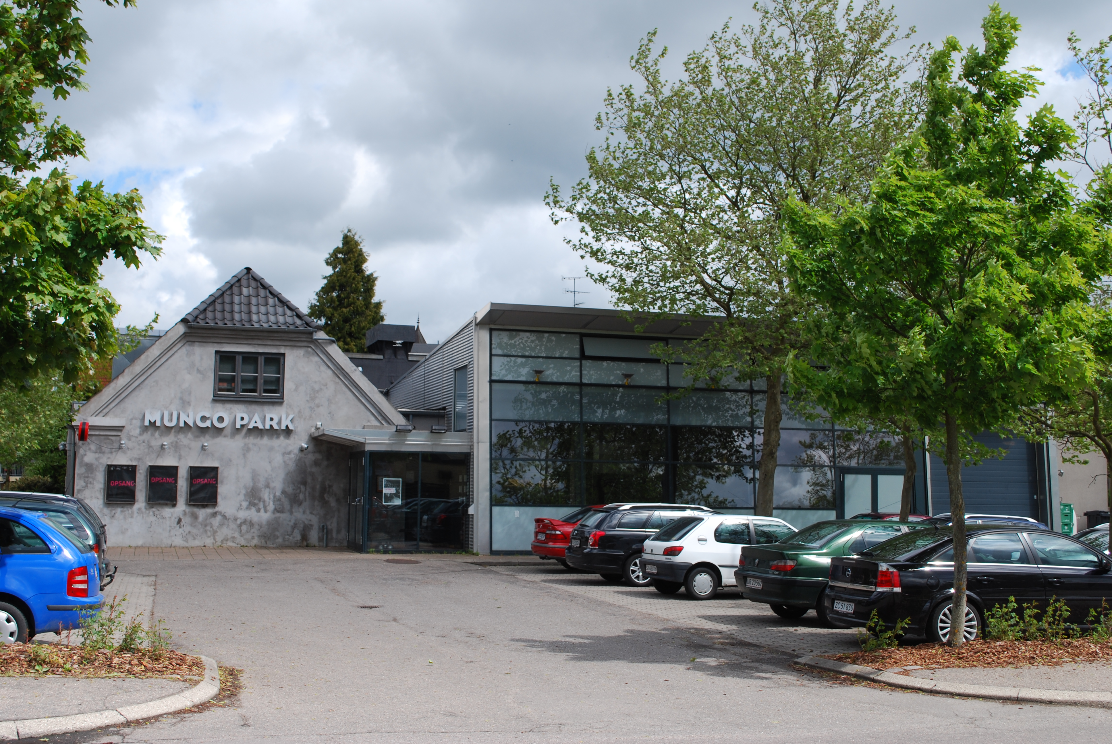 Mungo Park theater in Allerød, Denmark